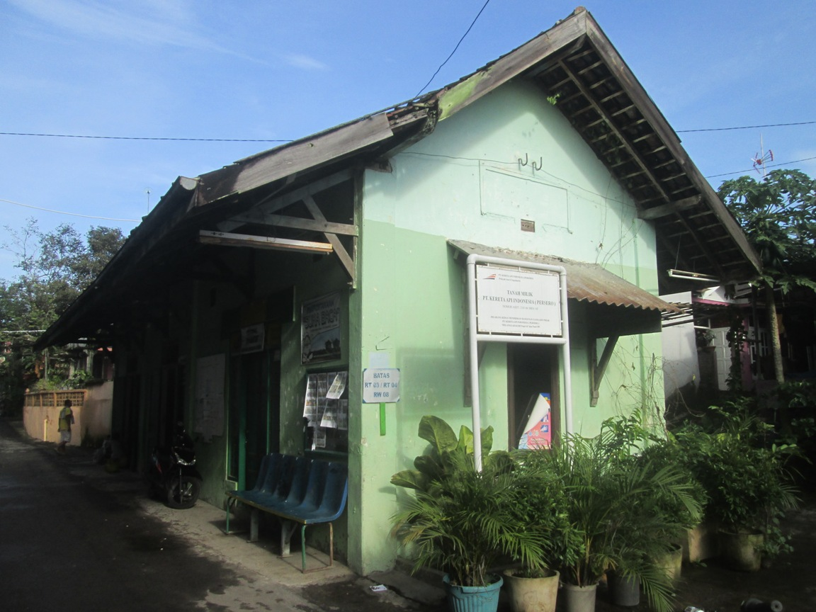 Ex-Medari station.